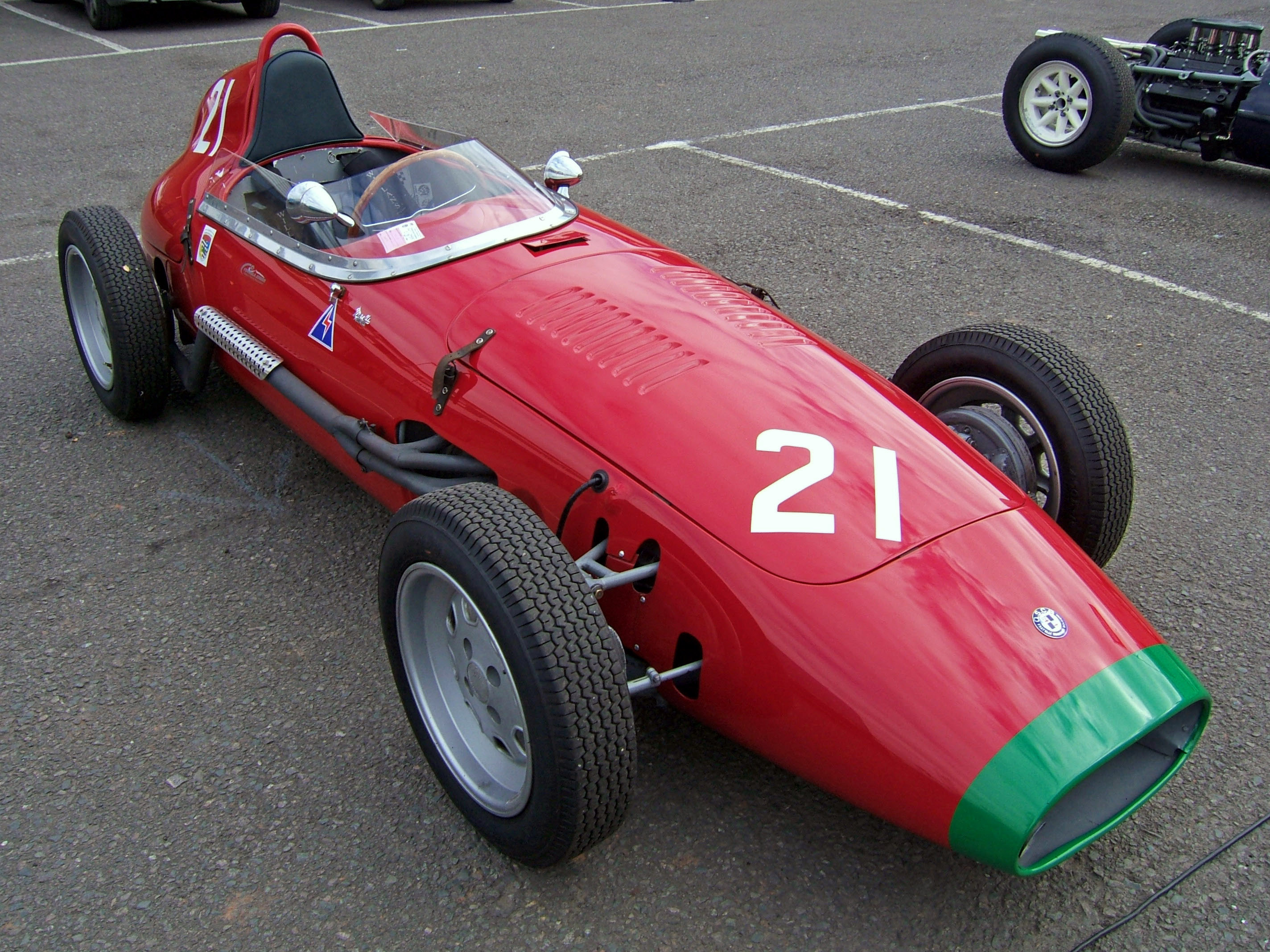 An OSCA Formula Junior car ("Tipo J", only fifteen built, with Morelli bodywork) waits in the paddock of the VSCC SeeRed race meeting, Donington Park, September 2007.